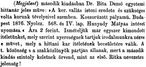 Information of the work of Bita Dezső